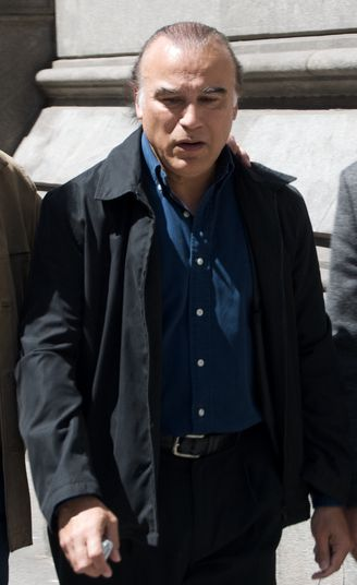 Singer Paz Martinez walks into the Congress building to pay his respects to Mercedes Sosa